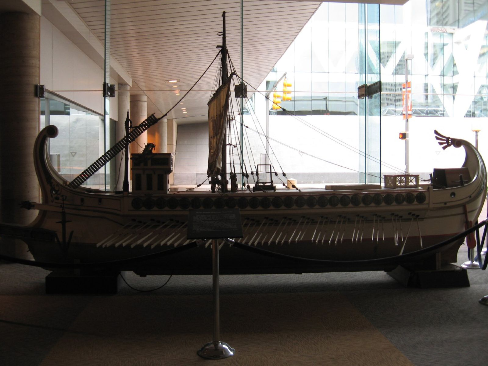 Plaque reads: This Replica of an ancient Roman trireme is one of the original ships used in the movie "Ben Hur." It was given to Mayor William Donald Schaefer and the citizens of Baltimore by the Peter S. Atsaides Family, owners of Kibby's Restaurant. The ship was turned over to the Vocational Educational Department for needed renovation. Students there did reconstruction and repair work under the direction of instructor Algimantas K. Grintalis. Accurate detailing was accomplished by careful study of photographs from U.A./M.G.M Distribution Company and other materials acquired through library research. The ship was dedicated with a ceremony on April 28, 1986.